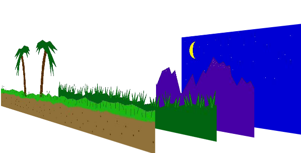 A constructed example of parallax scrolling. Very basic and pretty ugly, but demonstrates the principle. If anyone with art skills and/or patience feels like replacing it with something better-looking, feel free.